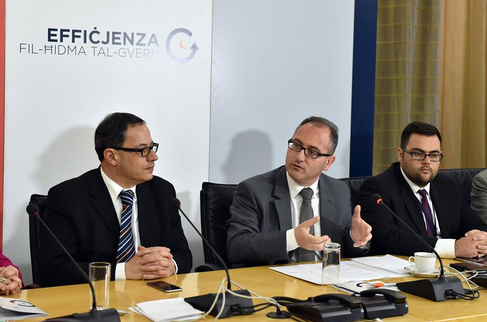 Roderick Galdes, 2015